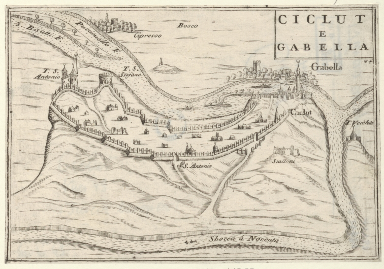 Map of Gabela by Vincenzo Coronelli - Repubblica di Venezia p. III